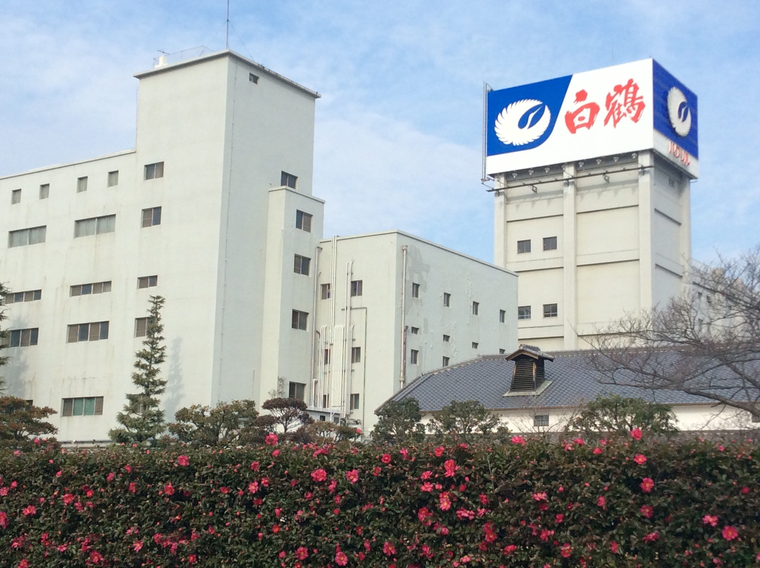 HAKUTSURU SAKE Brewing Co., Ltd.